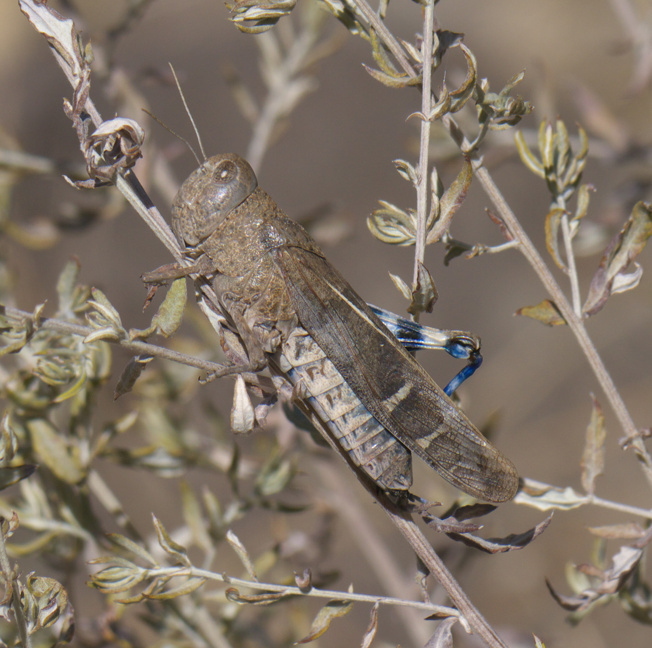 Leprus intermedius, Saussure's Blue-winged Grasshopper, ID Confidence: 98